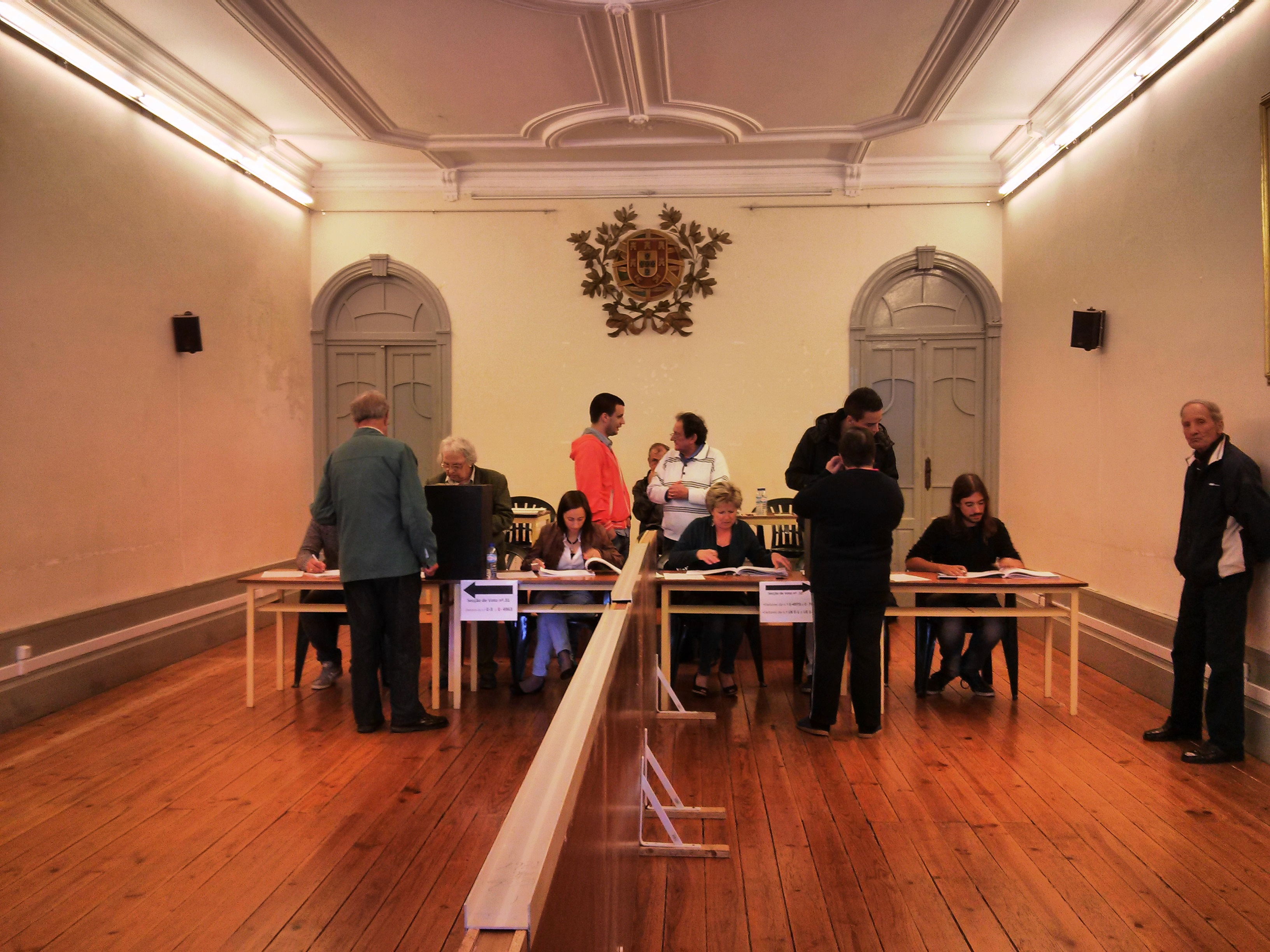 Polling station in the former Junta de Freguesia (townhall) of São Nicolau (Oporto) for the European Parliament Elections 2014